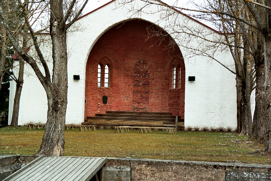 Ruins of the 2nd church of Teuva, Finland